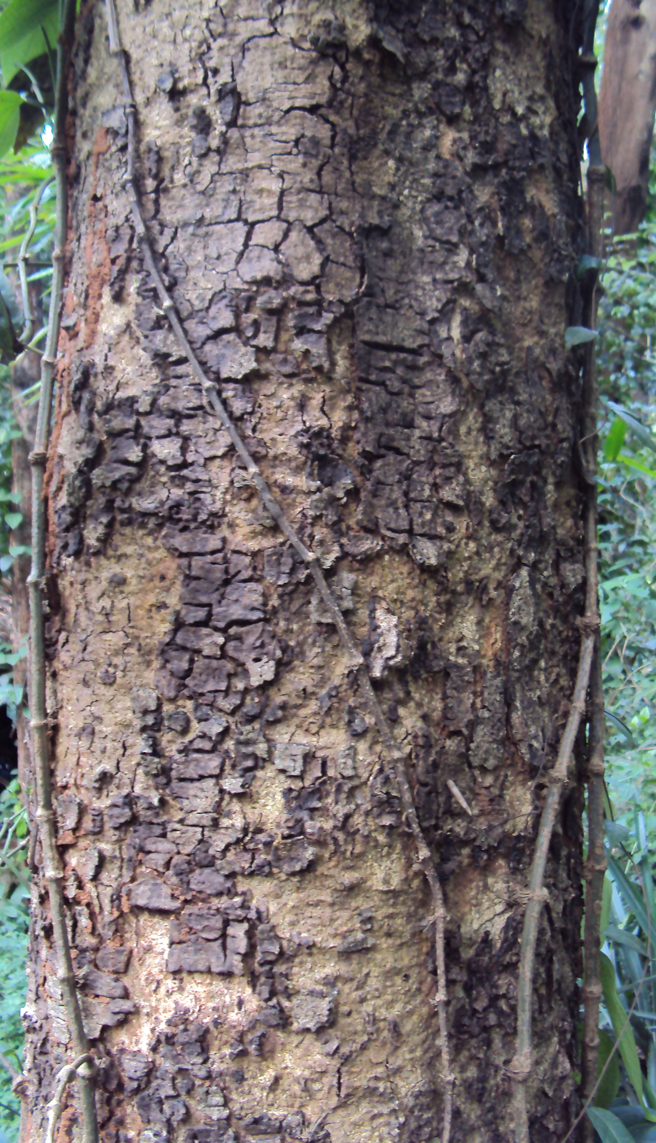 Albizia chinensis - ഈയൽവാക